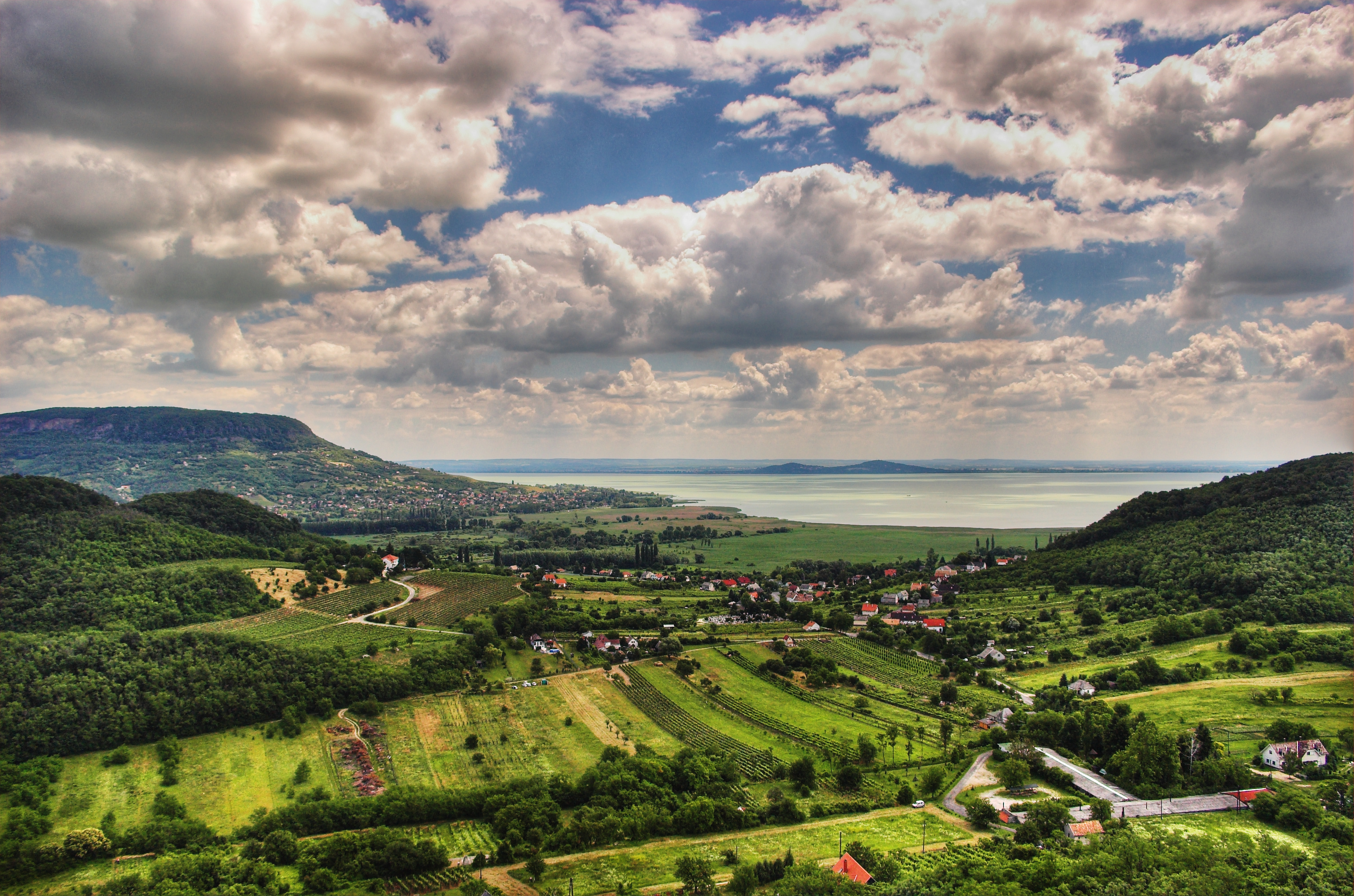 Landscape at Lake Balaton, Hungary.